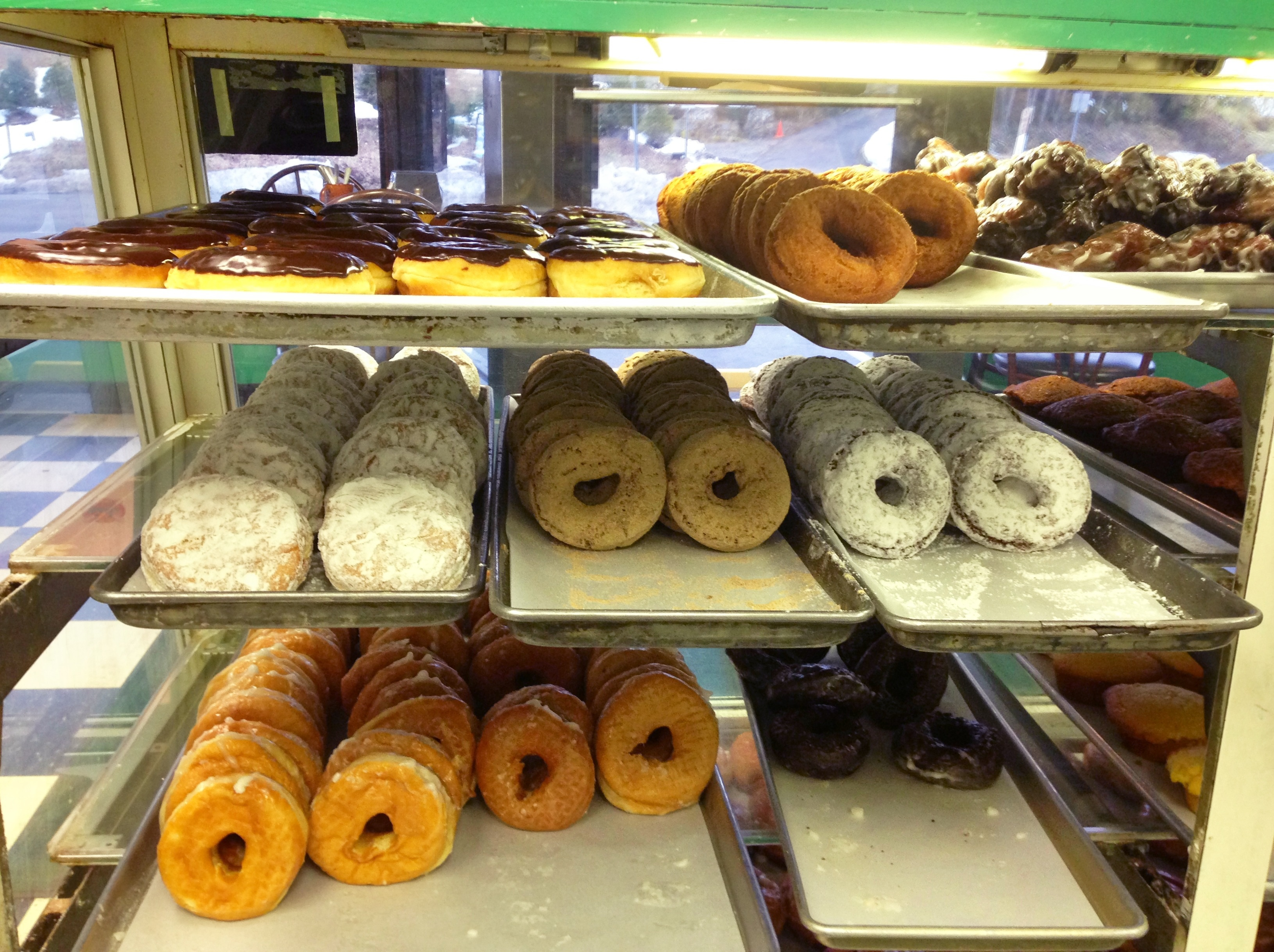 Donuts (Coffee An), Westport, CT 06880 USA - Feb 2013